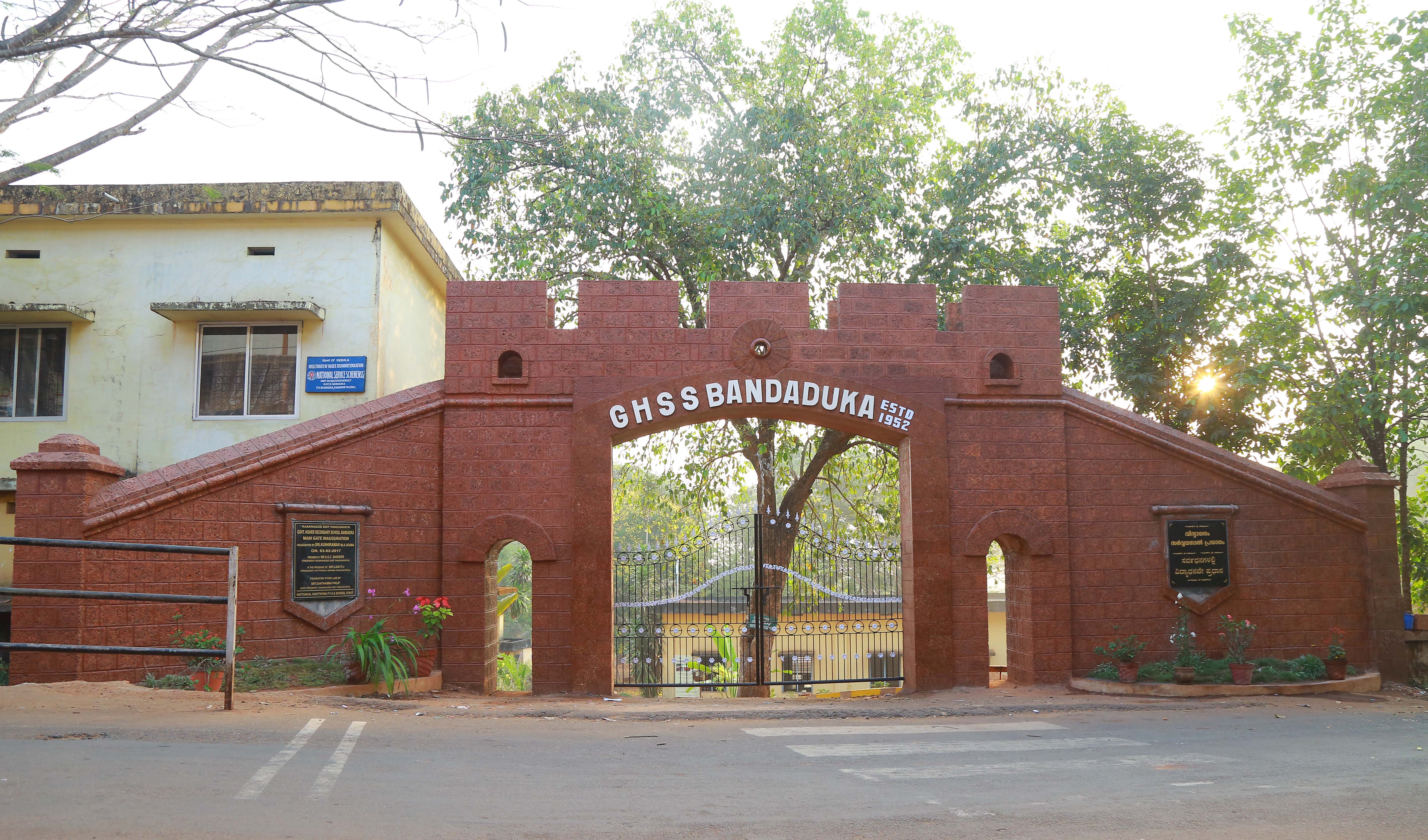 Bandadka GHSS gate in the shape of Bandadka fort